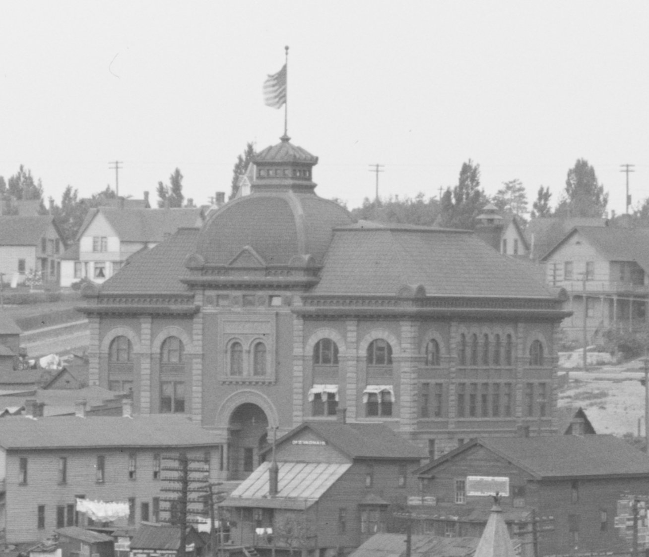 Marquette City Hall in Marquette, Michigan, circa 1908. Part of much larger image from the Detroit Publishing Co., titled "The Harbor, Marquette, Mich.", copyright 1908, No. 015591.